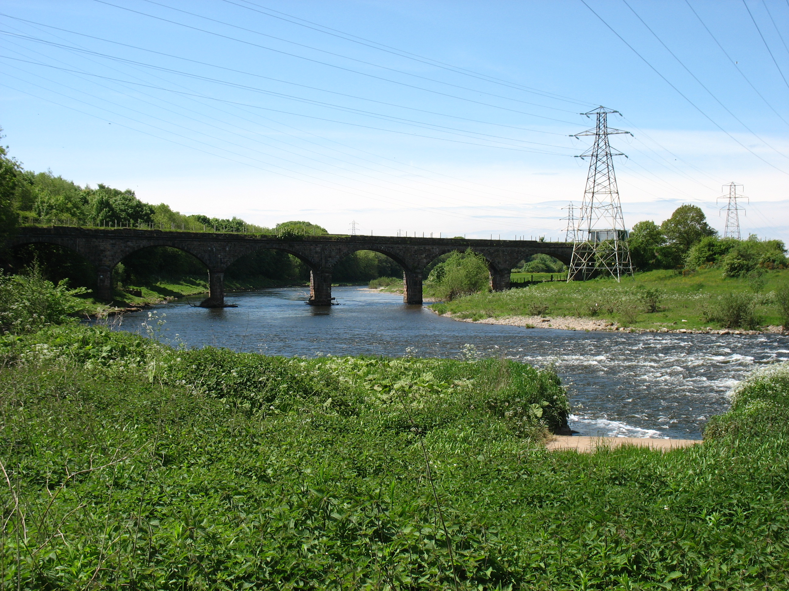 The River Eden below Carlisle